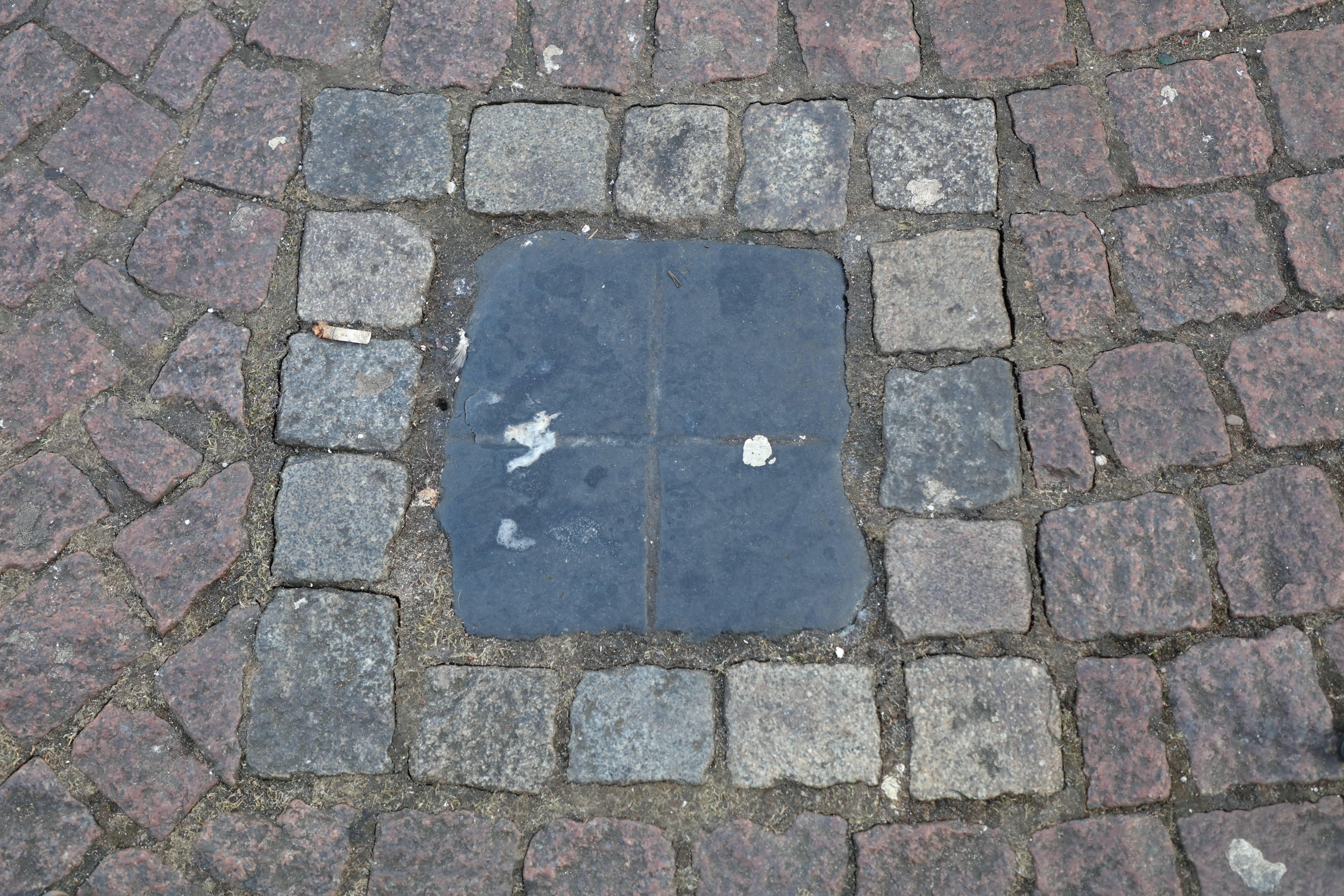 The "Spuckstein" at Domshof in Bremen marks the place, where Gesche Gottfried died.